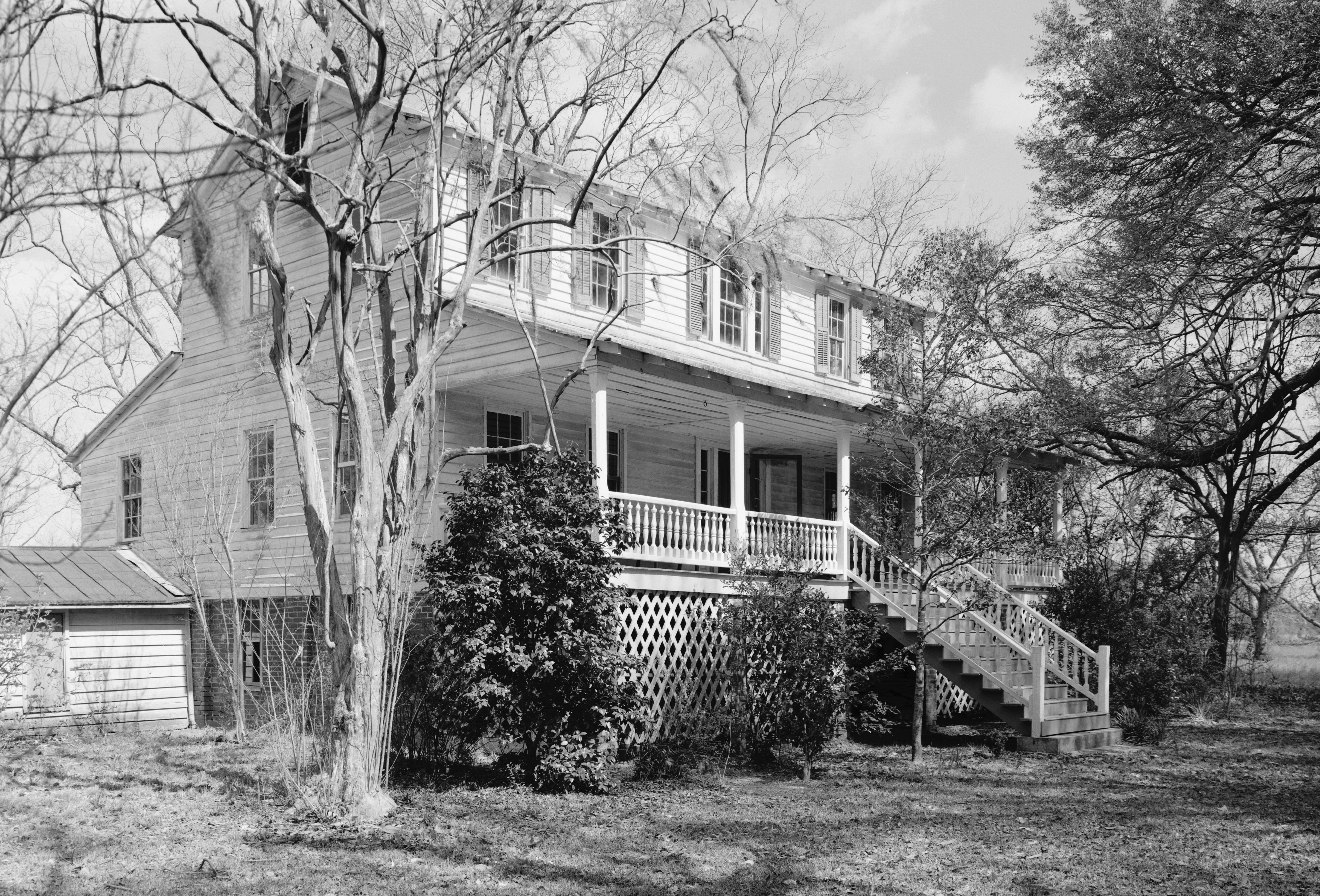 Cohasset, US 601, 1 mile North of Crocketville, Crocketville vicinity, Hampton County, SC. SOUTHEAST (FRONT) AND SOUTHWEST SIDE ELEVATIONS, LOOKING EAST. (From HABS: Built in 1873. Significance: Excellent example of Carolina I house, a vernacular house type popular from the late 18th through the early 20th century. Associated with William James Gooding, a cotton farmer who played a locally important role in politics and government. In addition, the property, which includes several late 19th century outbuildings and a late 19th century tenant house, is significant for information it reveals about post-Civil War agricultural practices.)